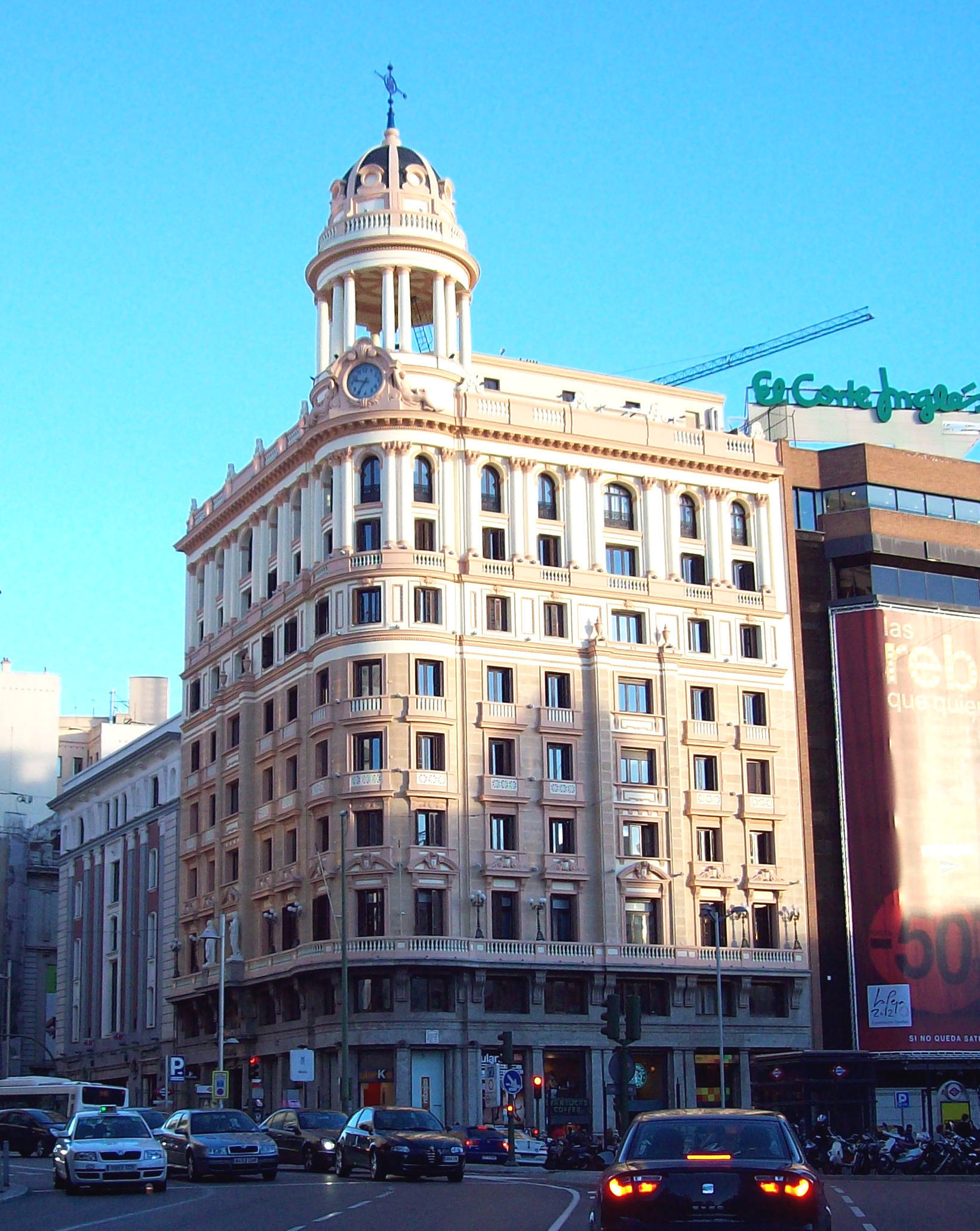 La Adriática Building in Madrid (Spain).